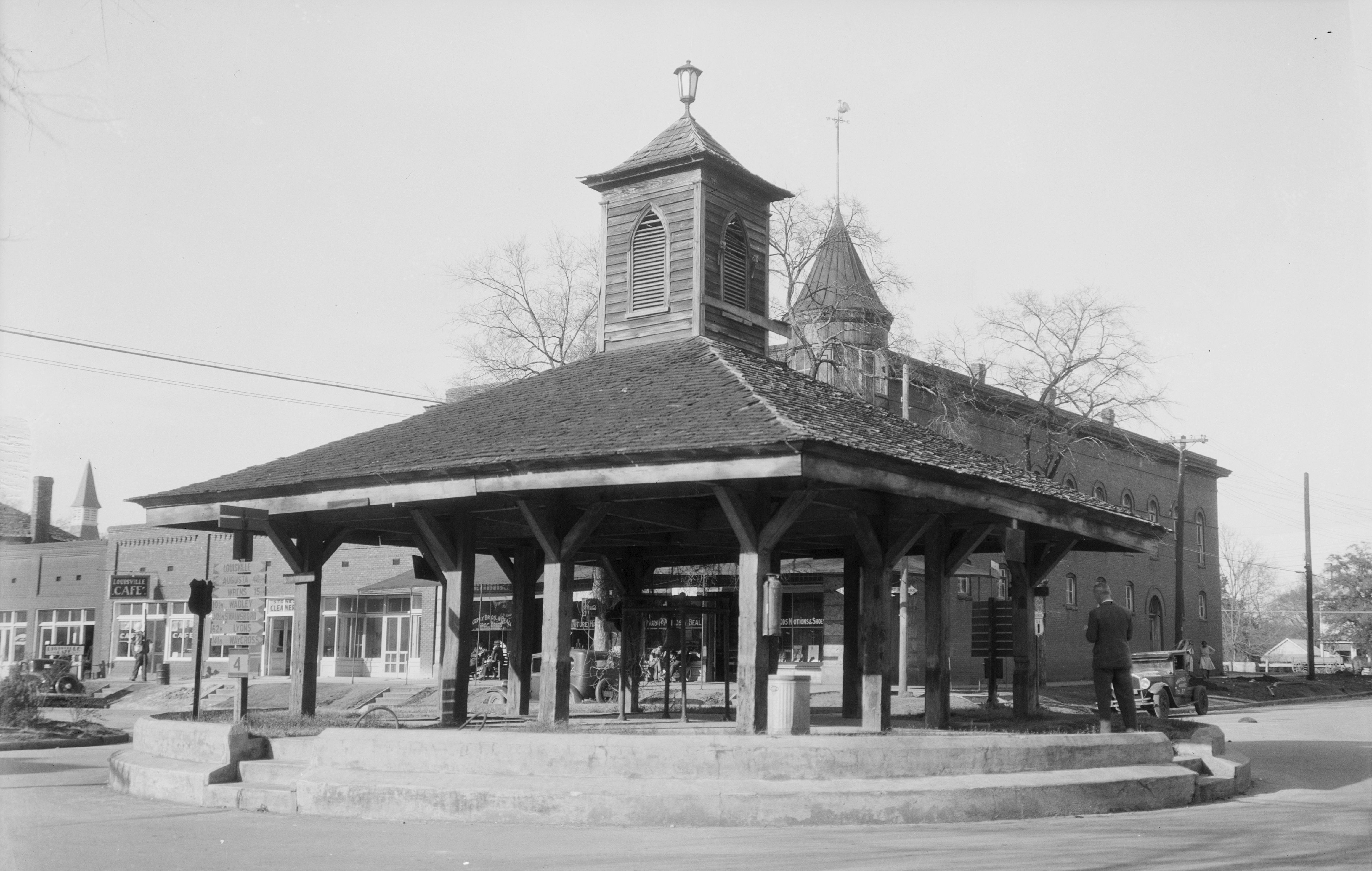 The Market House (Slave Market), Public Square, Louisville (Jefferson County, Georgia).